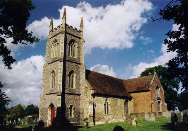 St Mary, Hartley Wintney Grade 2* listed building erected in the 13th century. Now redundant and used as a mortuary chapel.